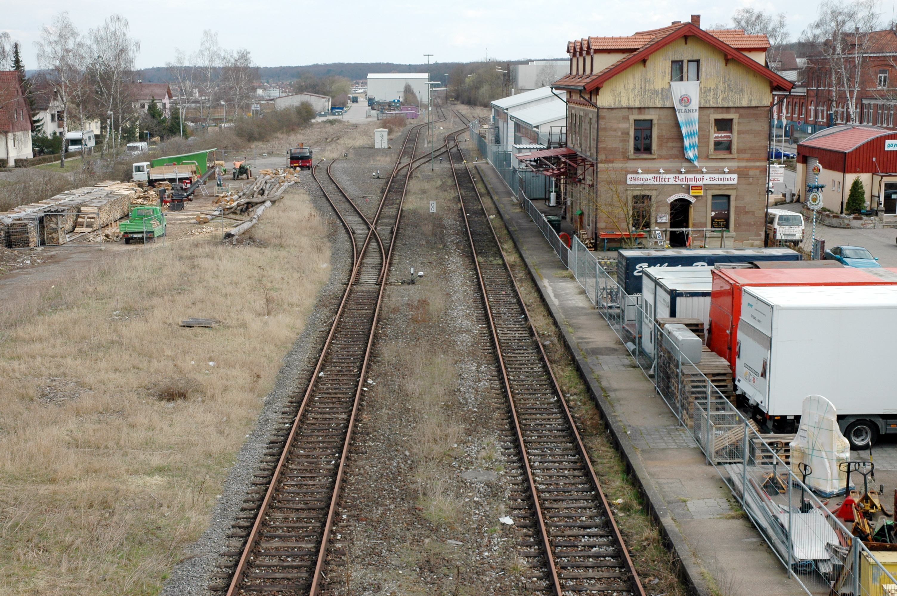 tracks and station building at Vaihingen (Enz) north station